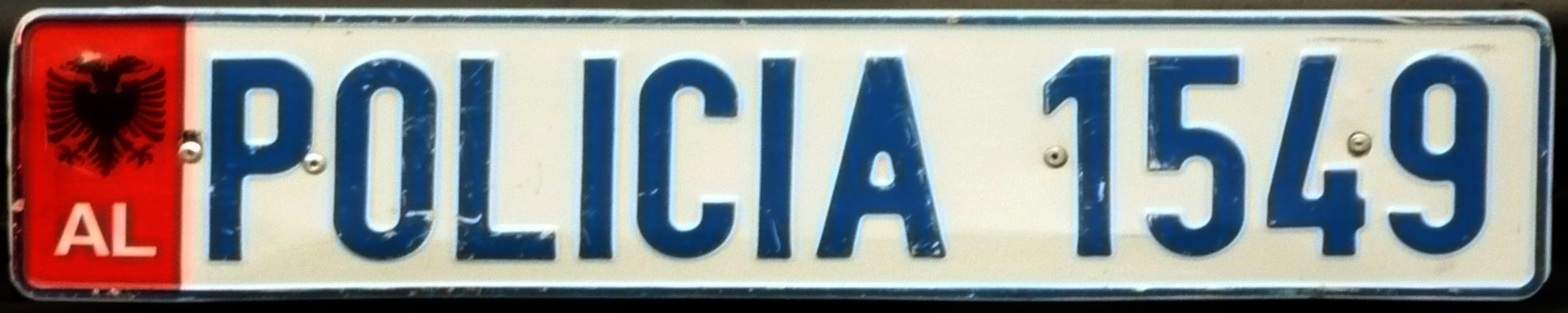 Personalised vehicle registration plate of Albanian police in Tirana